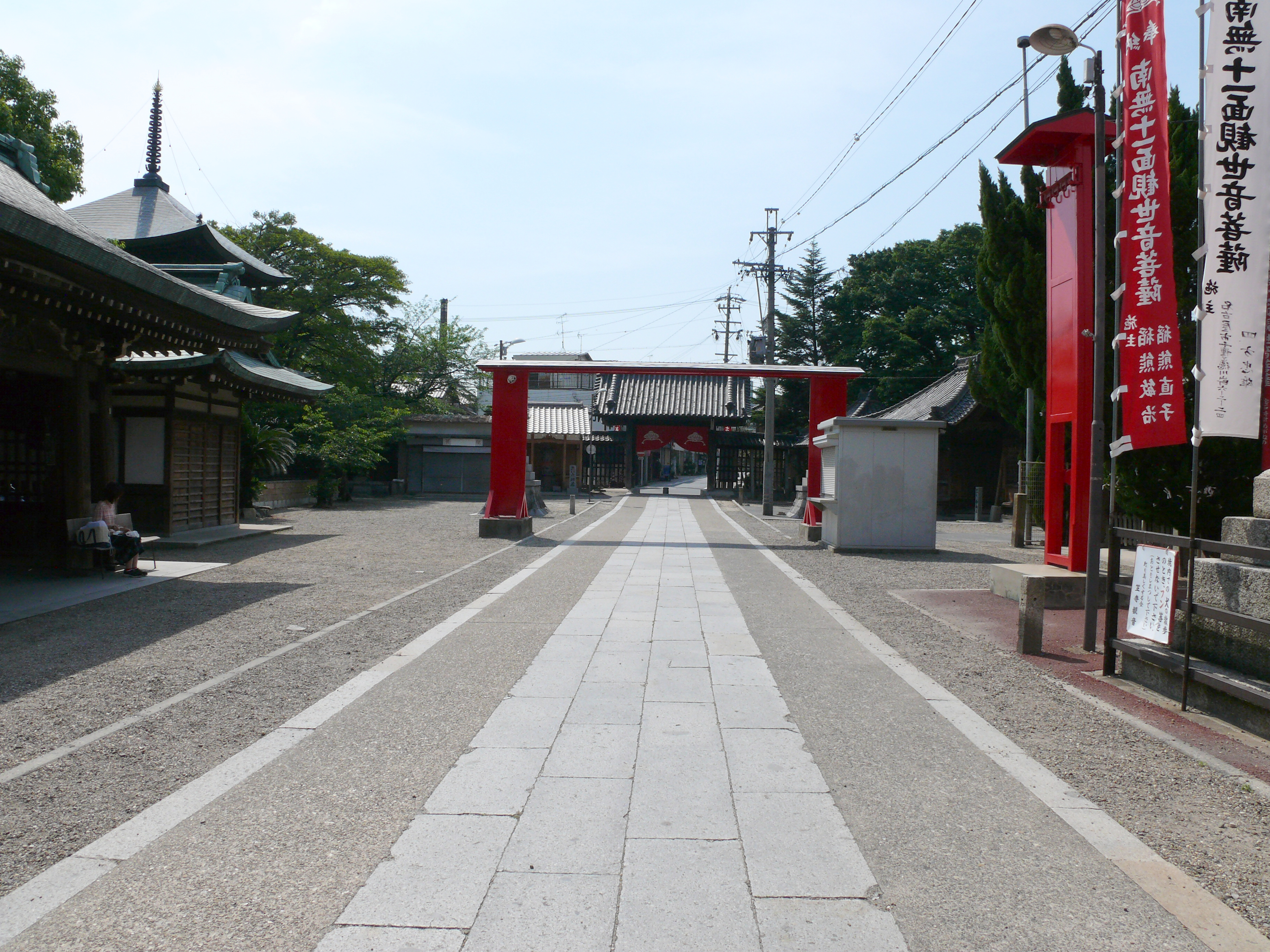 The temple of Kasadera Kannon in the city of Nagoya, central Japan.